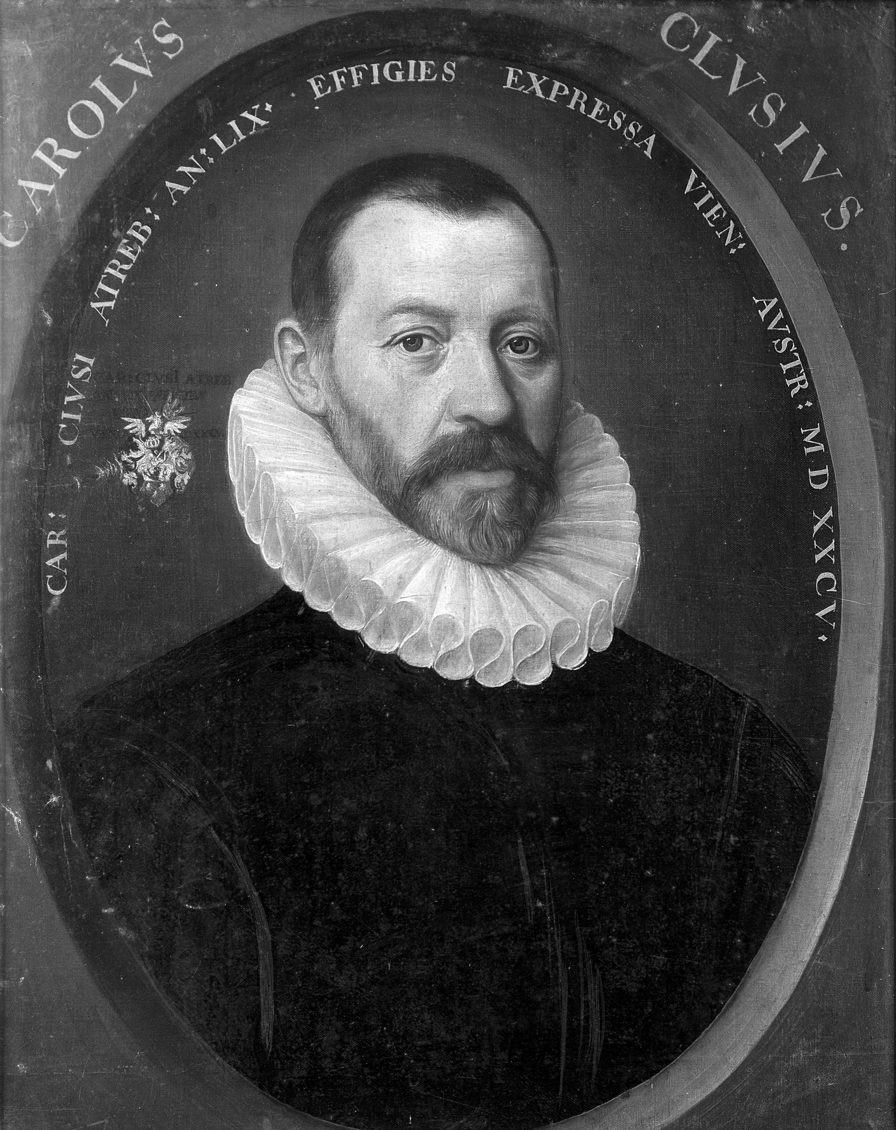 Portrait of Charles de l'Écluse, L'Escluse, or Carolus Clusius (1526 – 1609), a Flemish doctor and pioneering botanist. Iconographic Collections Keywords: Carolus Clusius